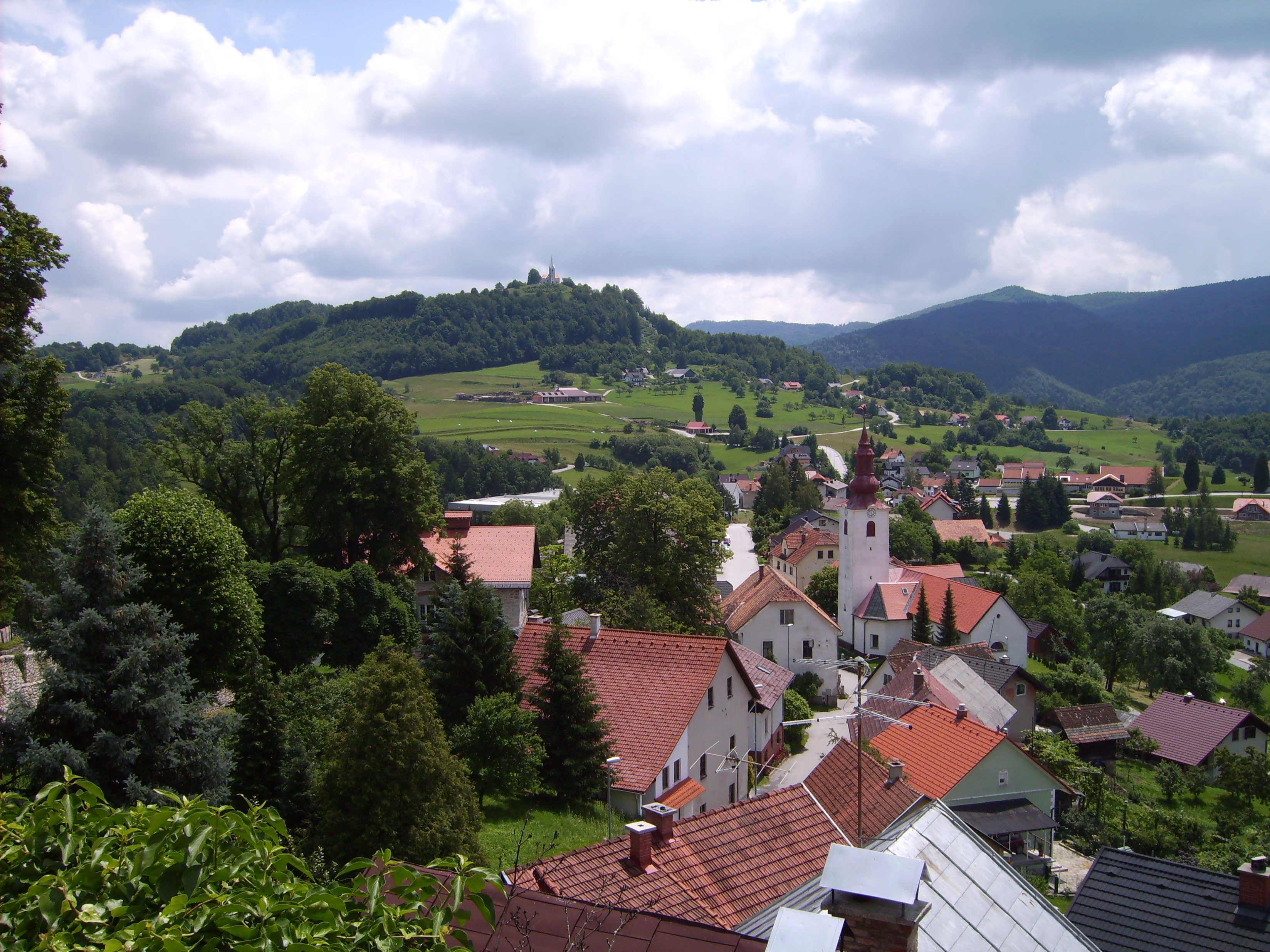 Village Planina pri Sevnici (Slovenia)